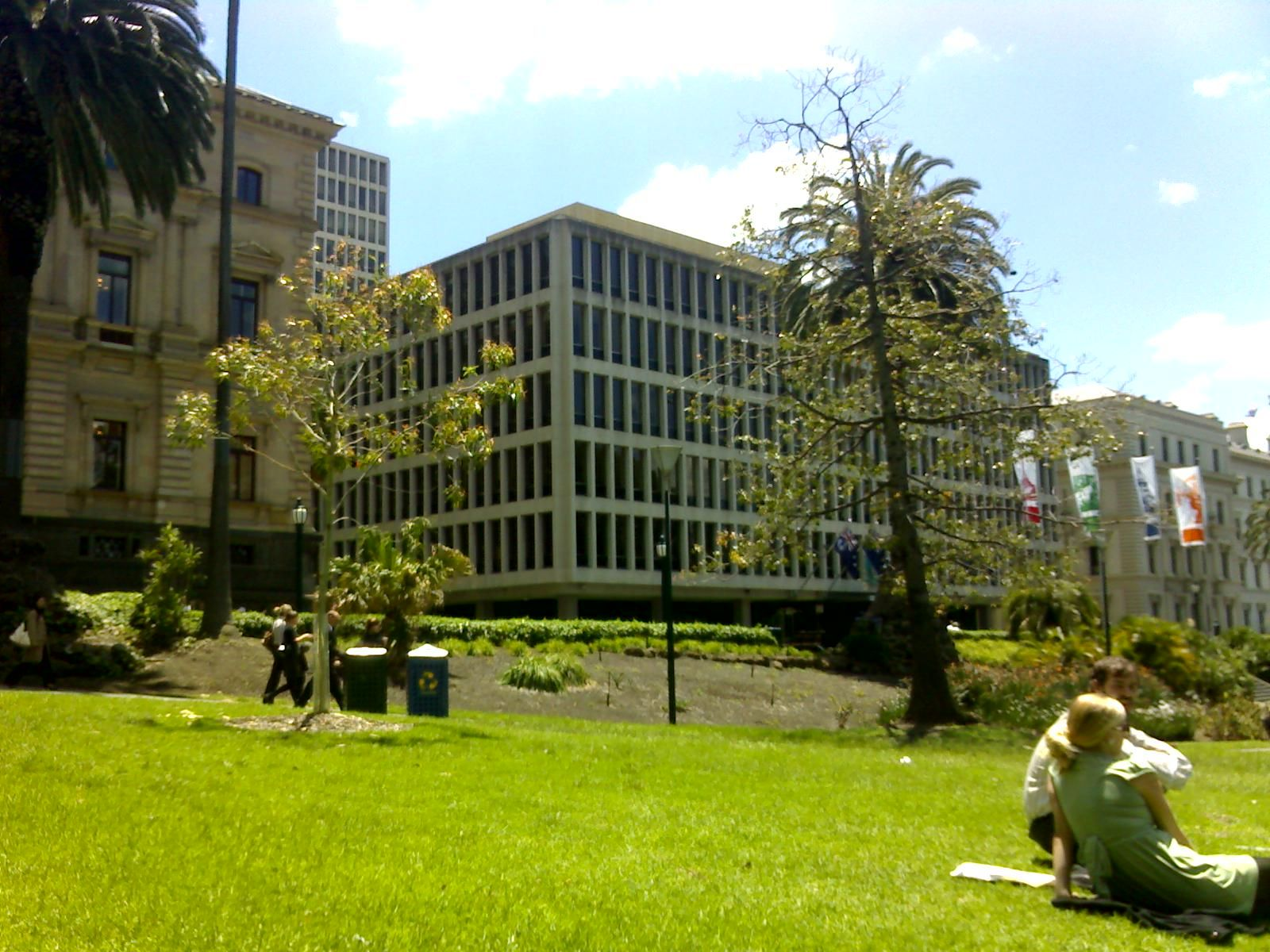 1 Treasury Place (centre building) taken from Treasury Gardens. Building to the left is Old Treasury and to the right is 2 Treasury Place.